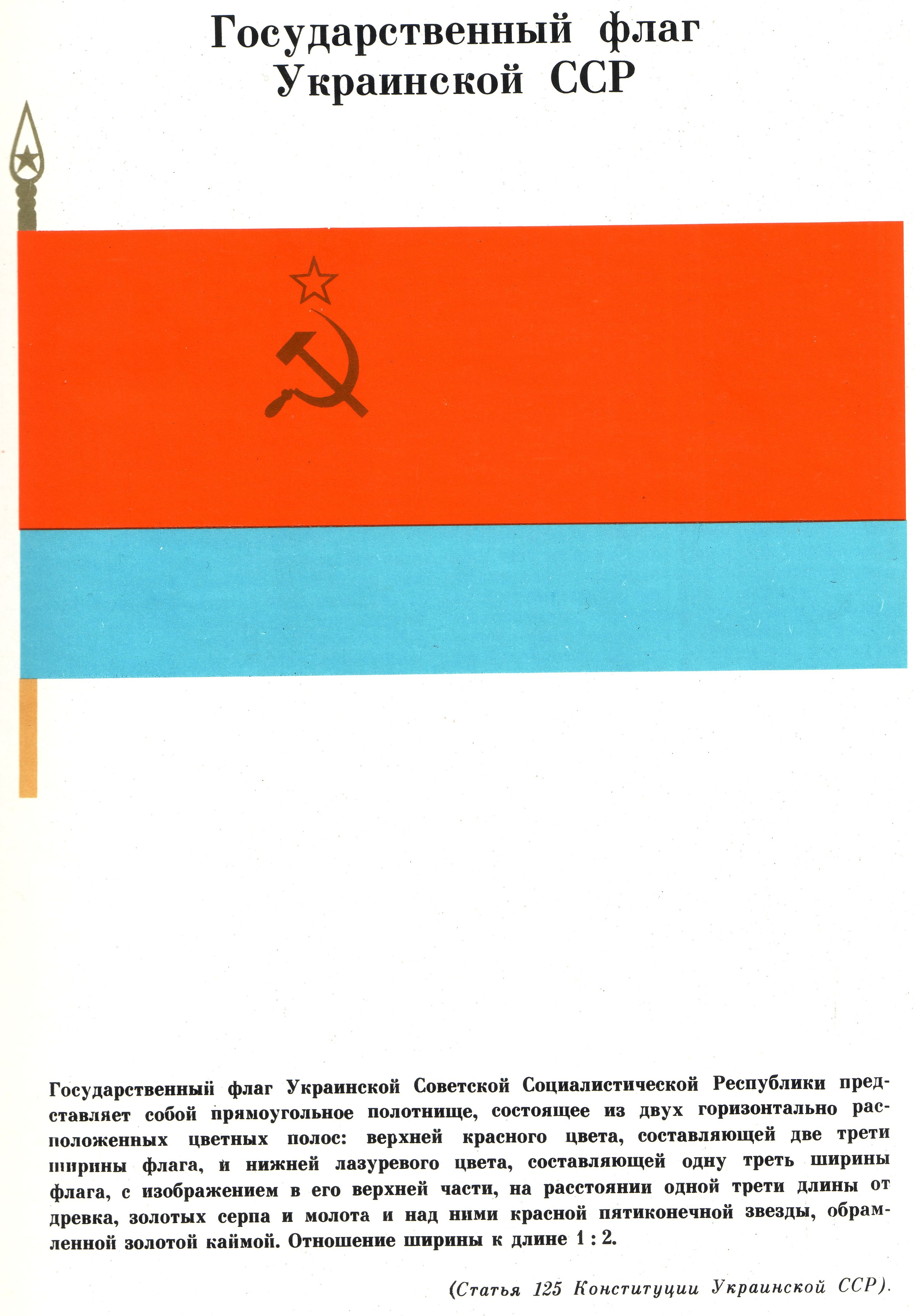 Official Flag of Ukrainian SSR (1949-1992), 1967